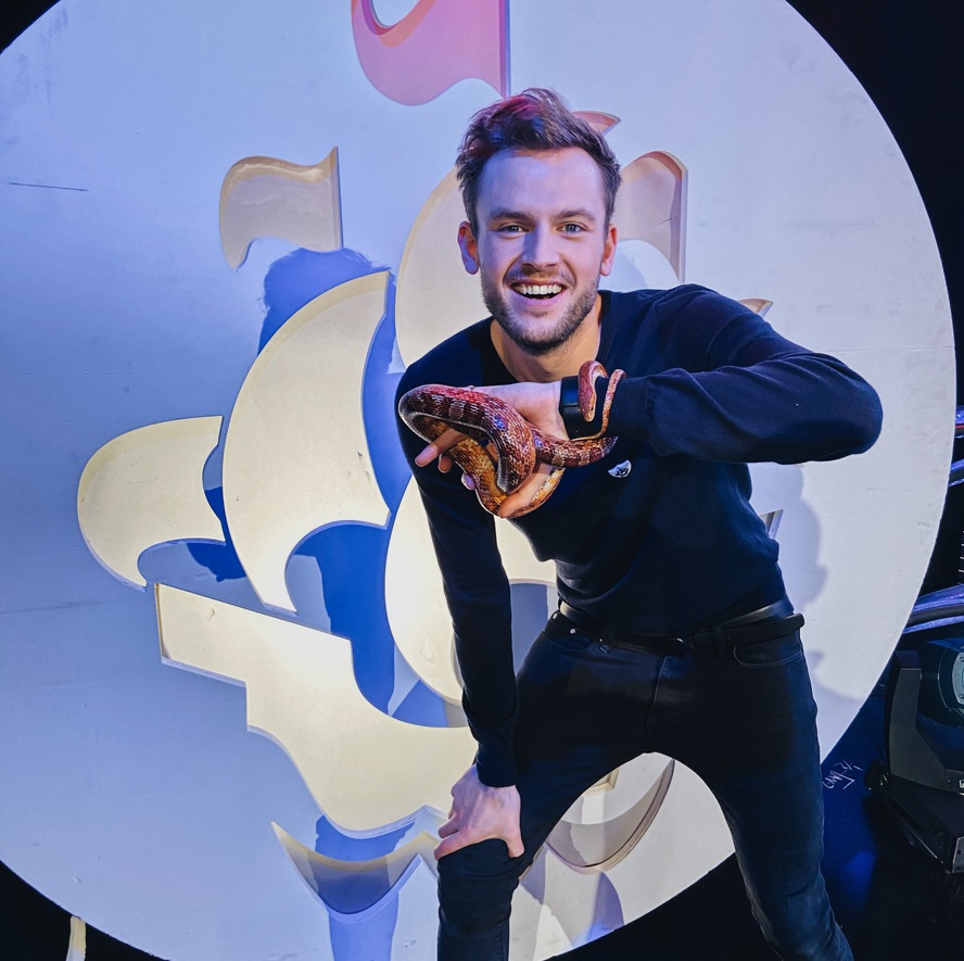 Rory Cowlam at the BBC studio in Manchester, on the set of Blue Peter